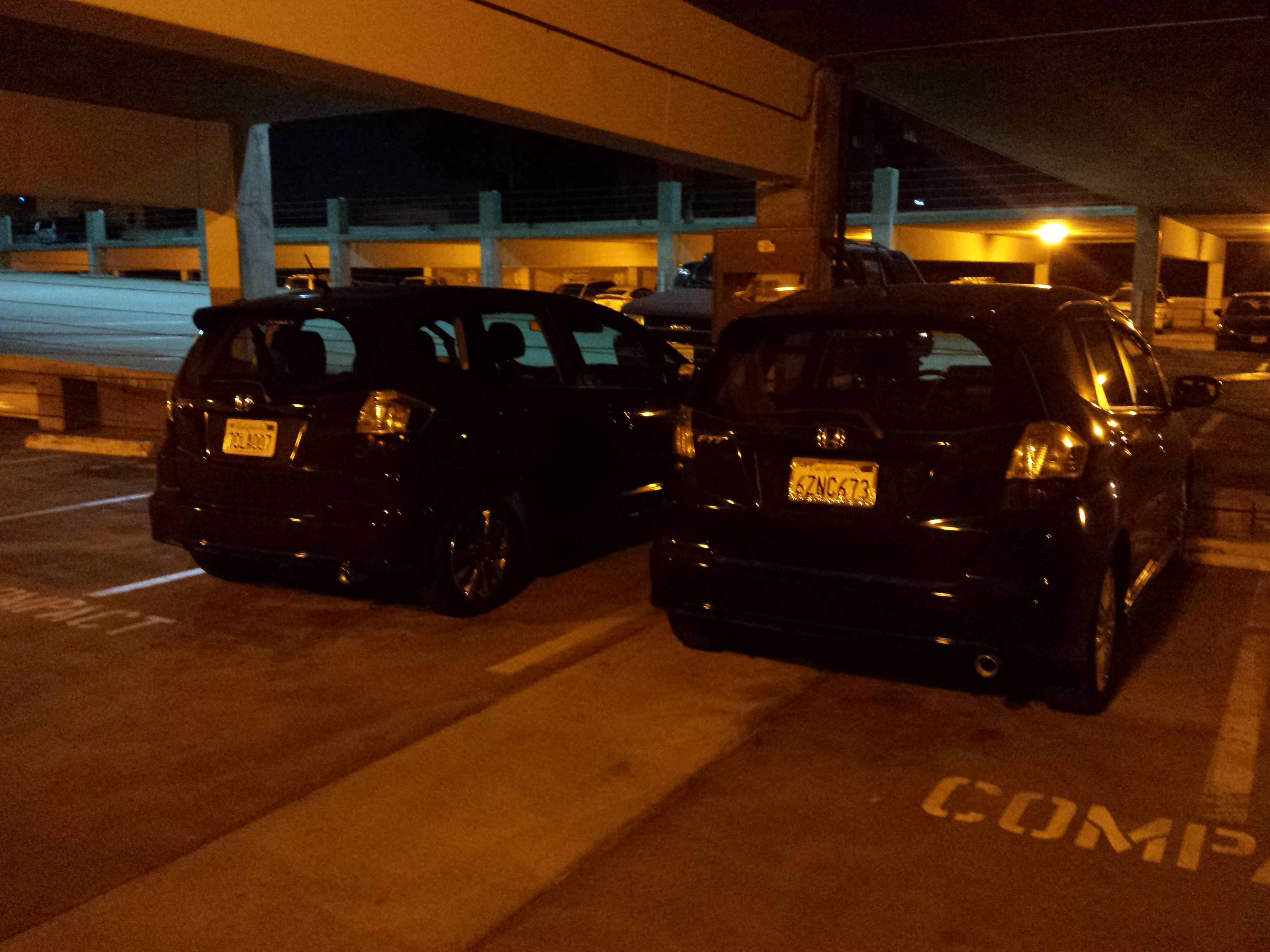 Two near-identical Honda Fits illuminated by low-pressure sodium lamps in a parking structure. Due to the color rendering of low-pressure sodium lamps, both cars appear black. The car on the left is actually a bright red, while the car on the right is actually black. Camera white balance was set to "sunlight" (5500K) to accurately render colors as perceived by the human eye under these lighting conditions. No post-processing or image manipulation was performed.